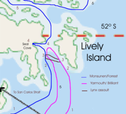 Sketch of the chase of Argentinian coastal ship "ARA Monsunen" by British Frigates "HMS Yarmouth" and "HMS Brilliant" (23 May 1982).